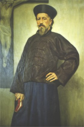 Théophile Verbist, founder of the Congregatio Immaculati Cordis Mariae, i.e. Scheutist or CICM Missionaries